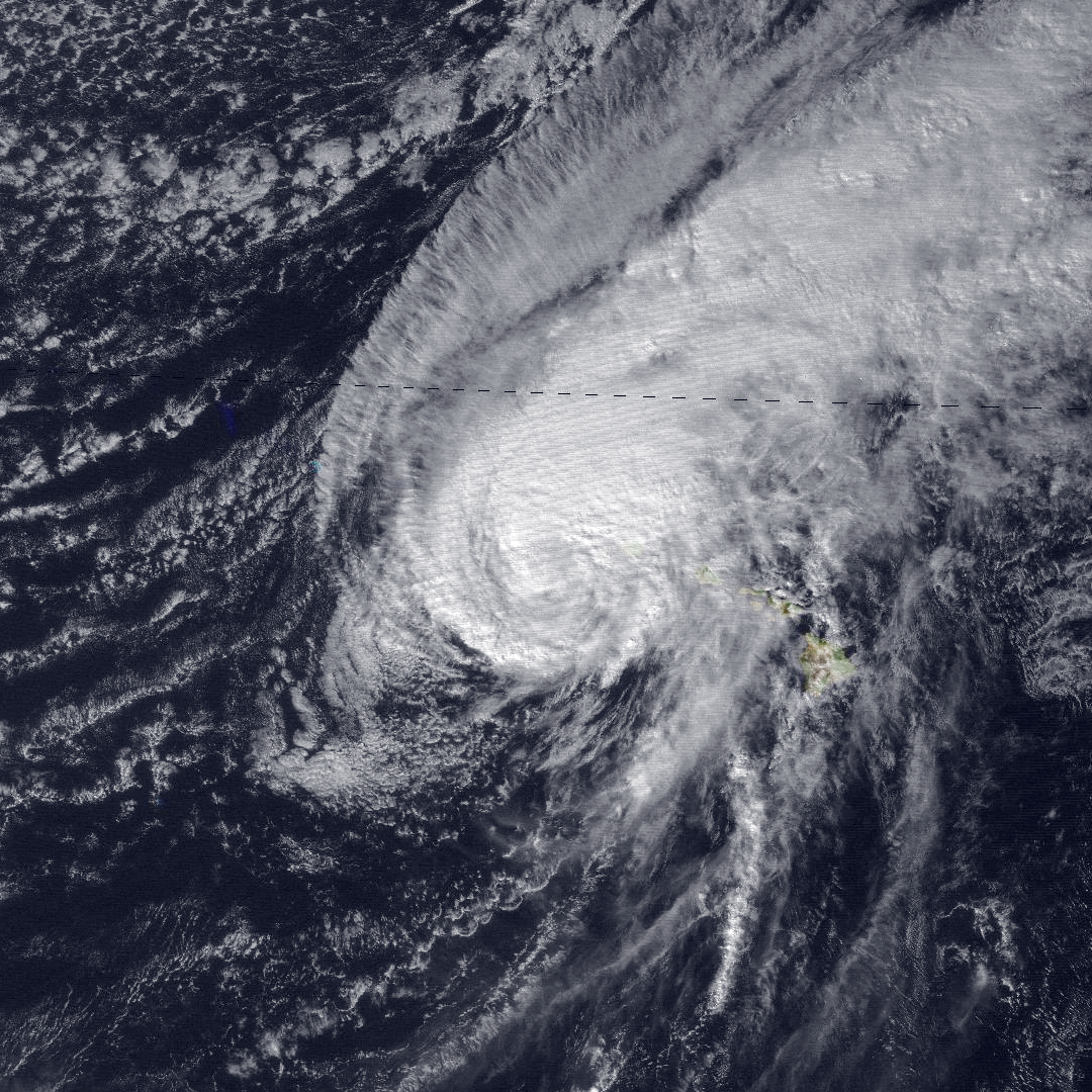 Hurricane Iwa at peak intensity just north of Kauaʻi on November 24, 1982